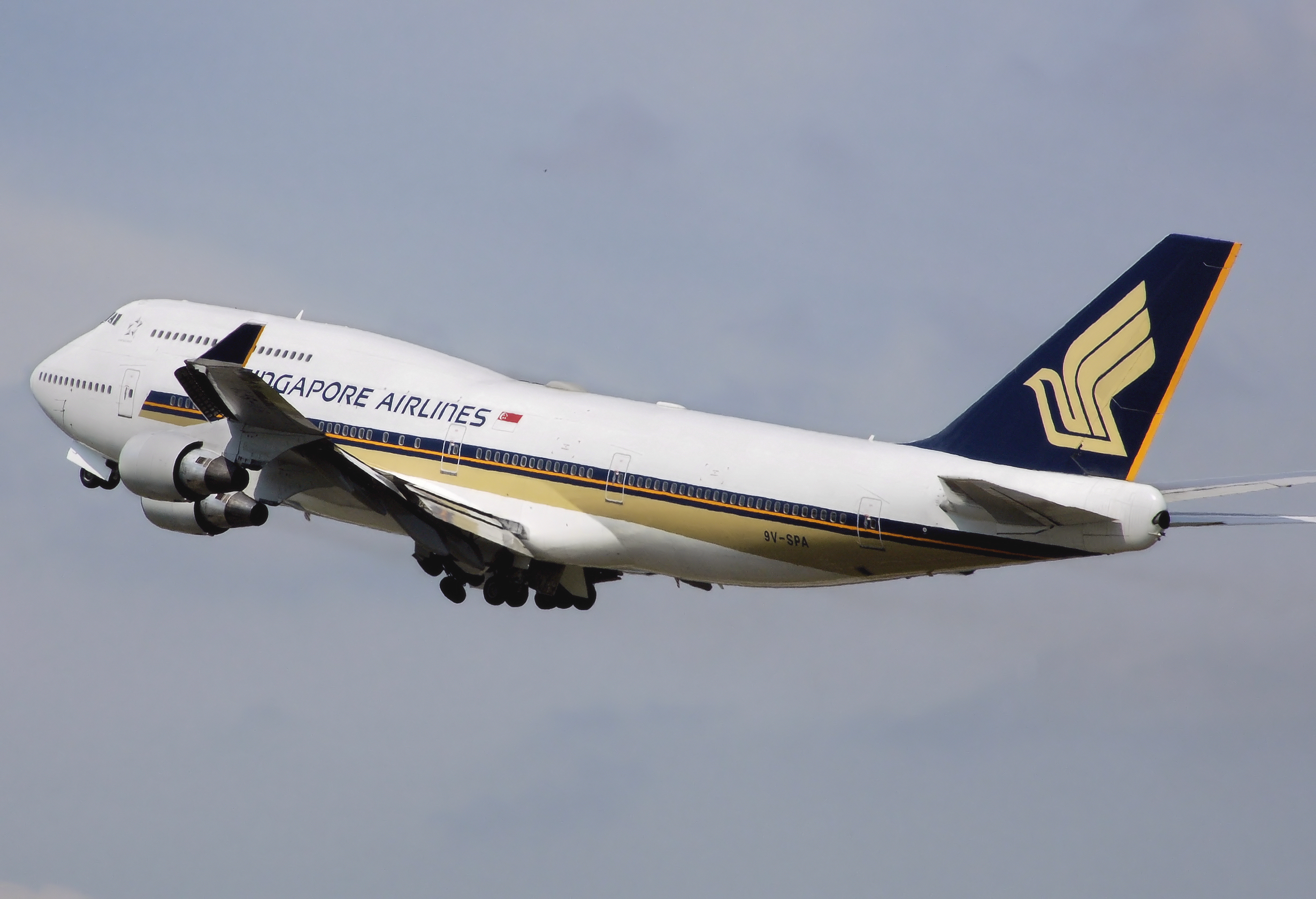 Singapore Airlines Boeing 747-400 (9V-SPA) taking off from London Heathrow Airport.